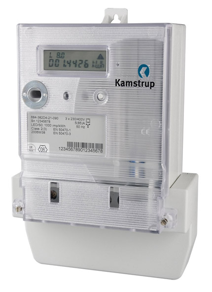 Electricity meter/smart meter manufactured by danish energy meter manufacturer Kamstrup, Denmark, Skanderborg